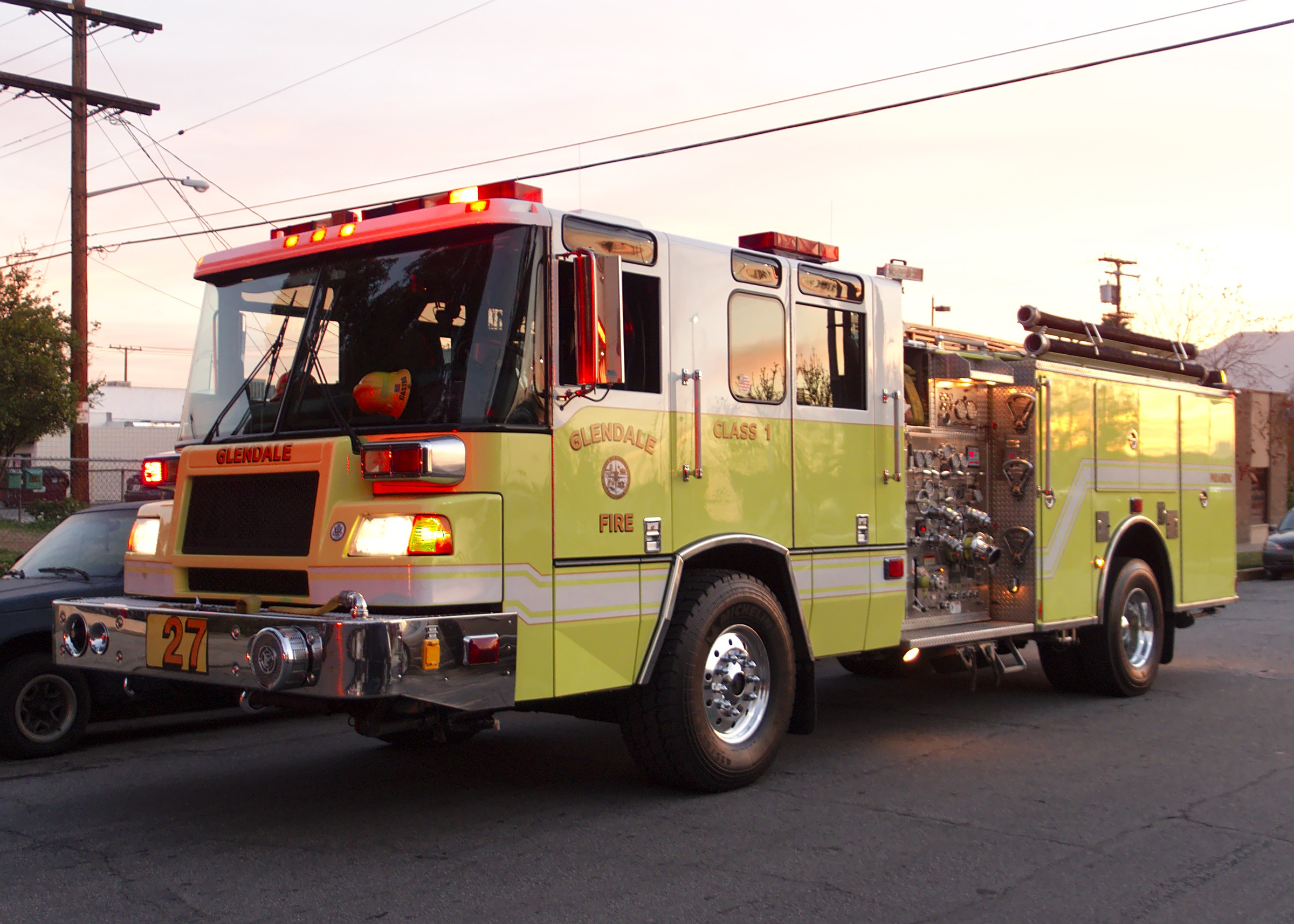 A Glendale Fire Department truck responding to a call on the border of Glendale and Burbank.